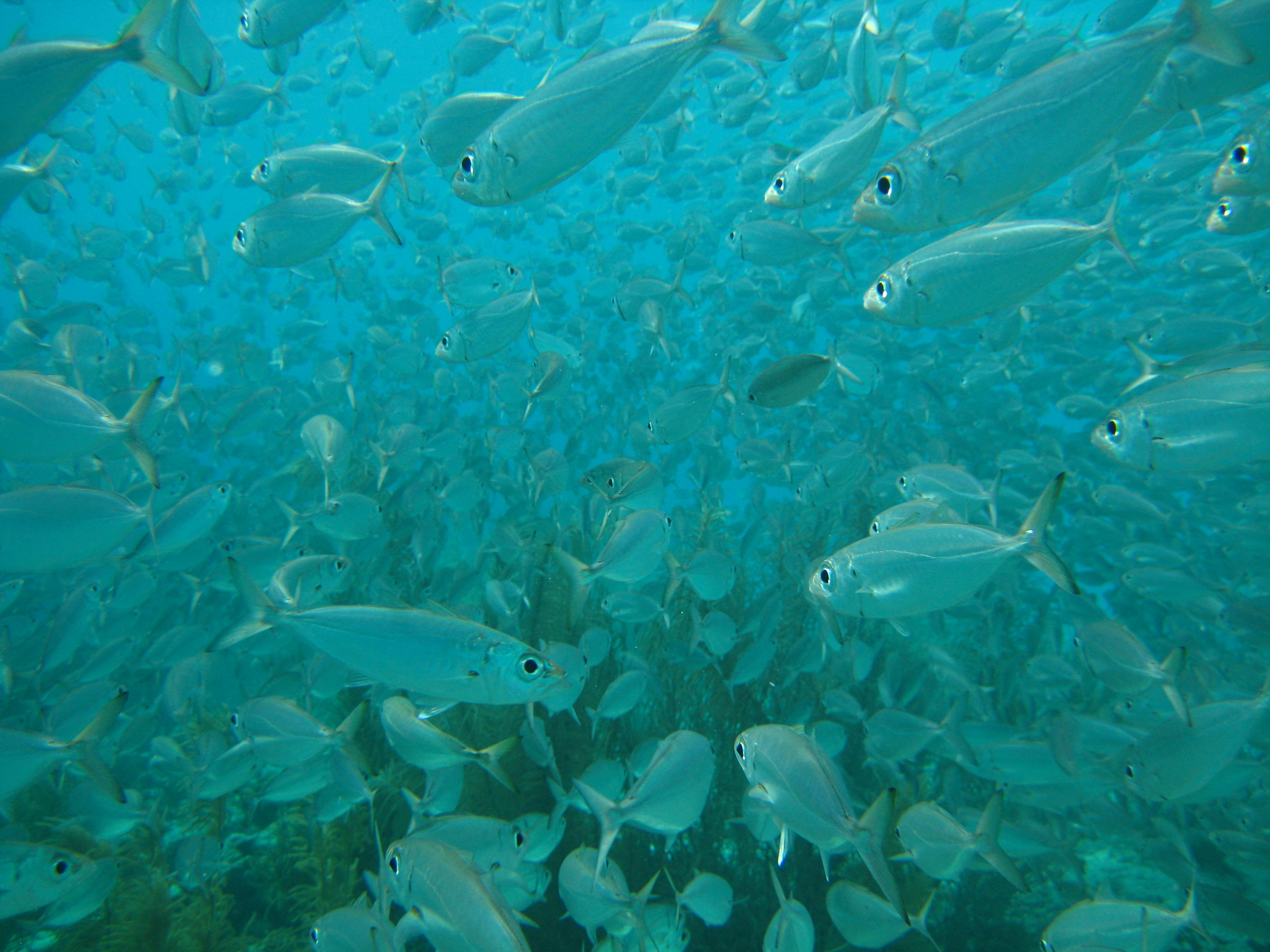 School of rough scad (T. lathami) in the Netherlands Antilles